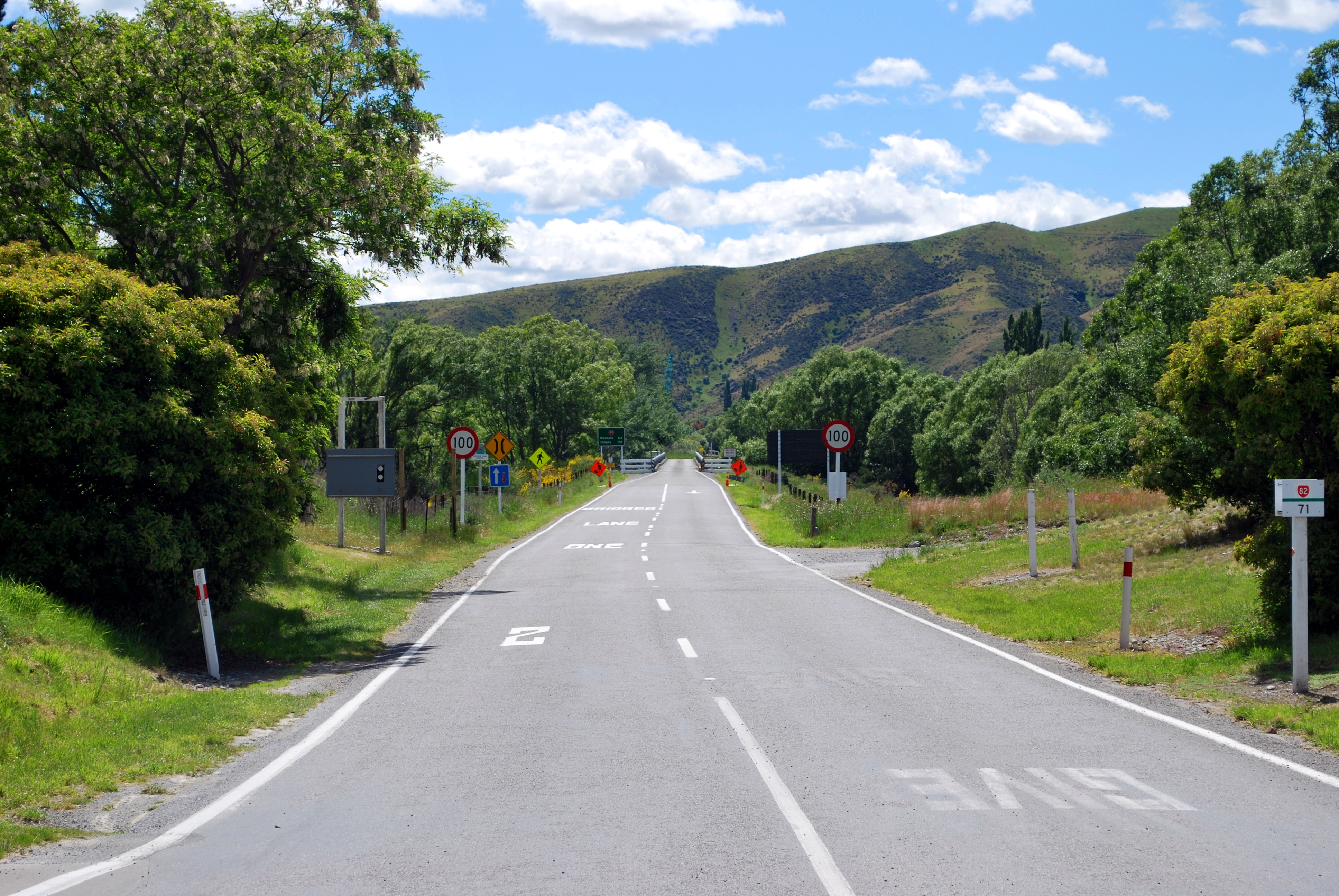 New Zealand State Highway 82 near its junction with New Zealand State Highway 83 at Kurow, New Zealand